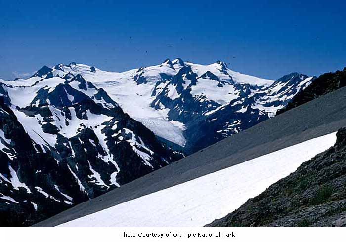 Title: Hoh Glacier on Mount Olympus seen from Bailey Range, Olympic National Park, date unknown Photographer: Kirk, Ruth W. Date: n.d. Notes: Hoh Glacier, Mt. Olympus, from Bailt [sic] Range.